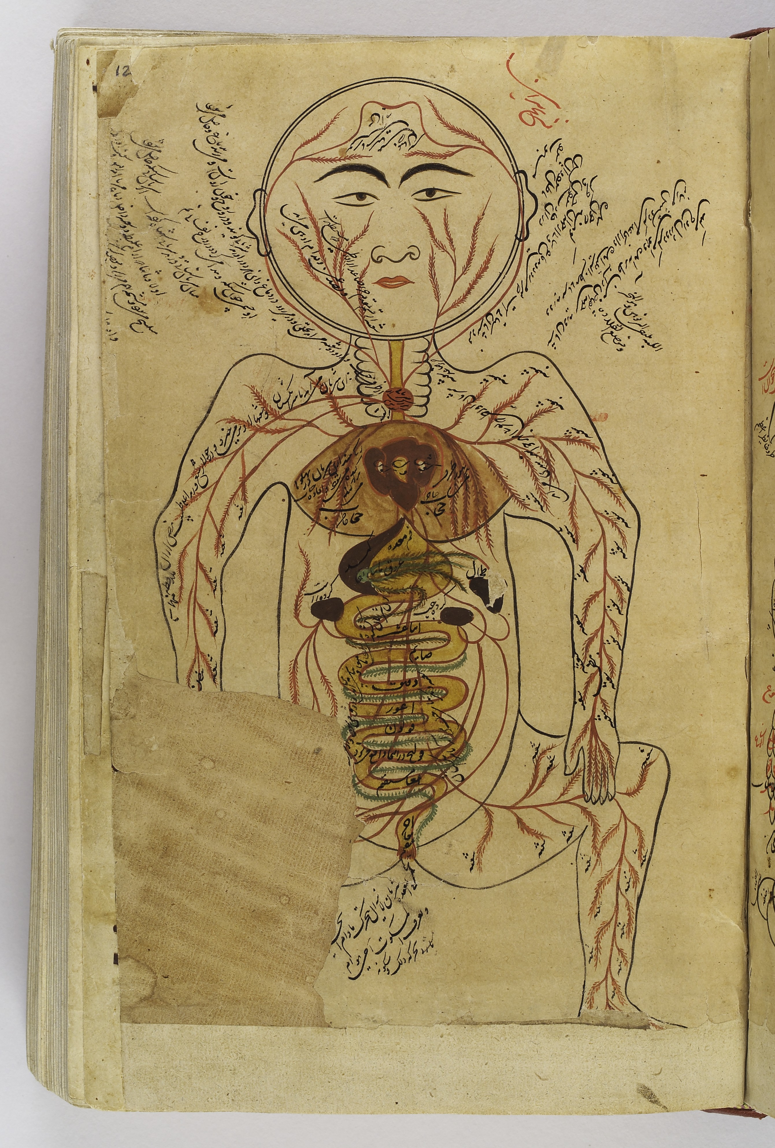 Drawing of viscera etc. Asian Collection Keywords: Arabic; Islamic; Persian; Medicine; Ibn Sina (Avicenna); Middle East; Iraq; Iran